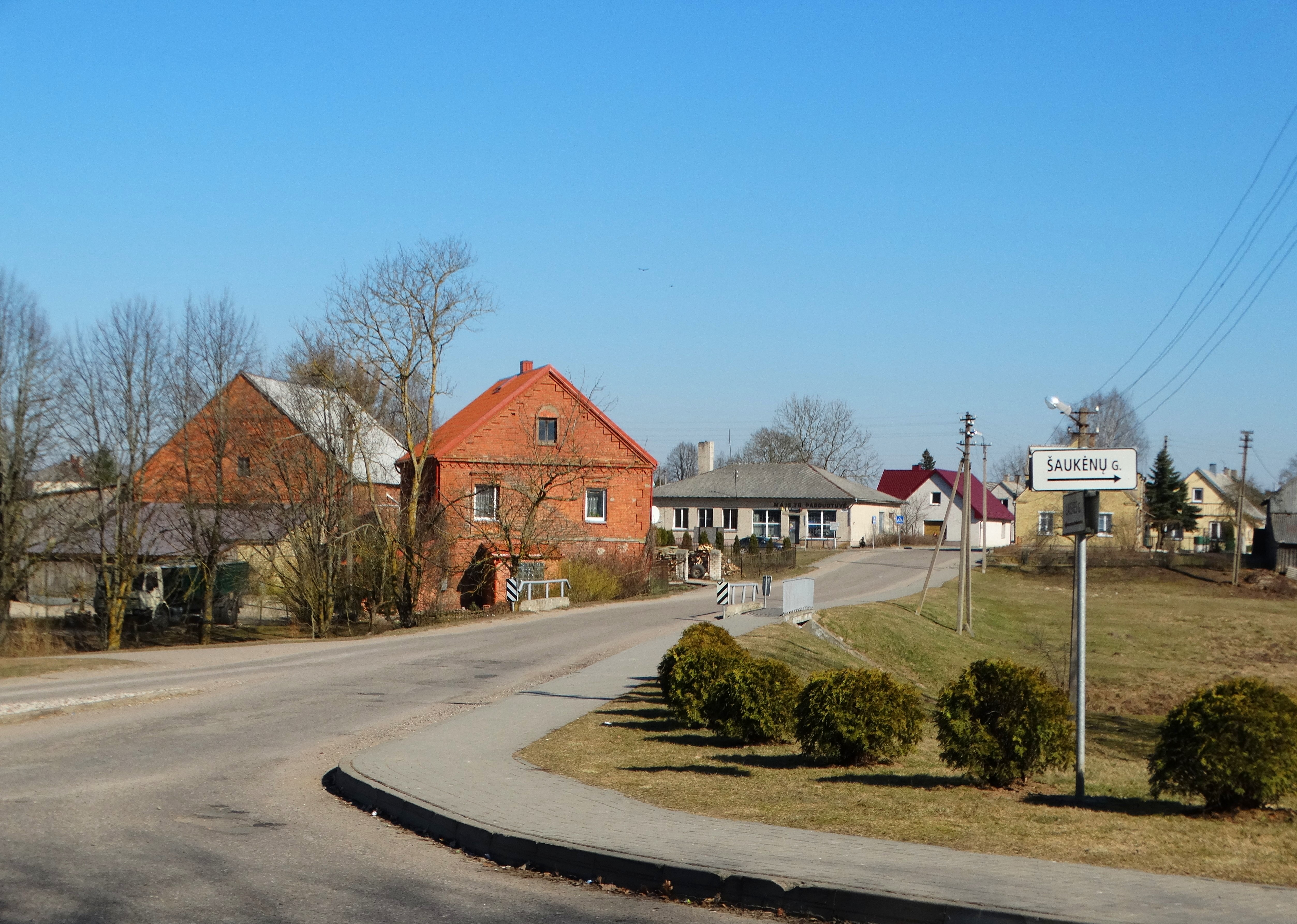 Šaukėnai, Kelmė district, Lithuania